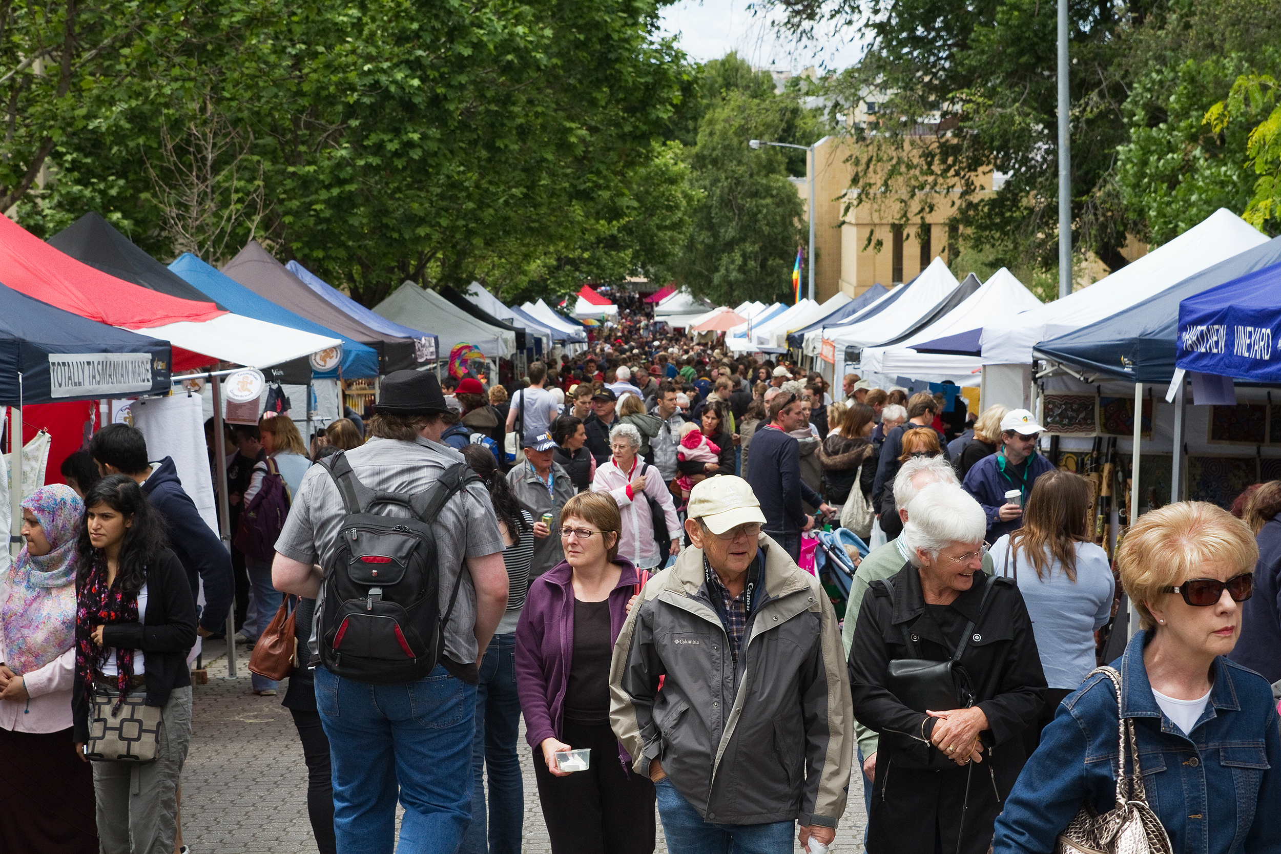 Salamanca Market from Davey Street, Hobart, Tasmania, Australia